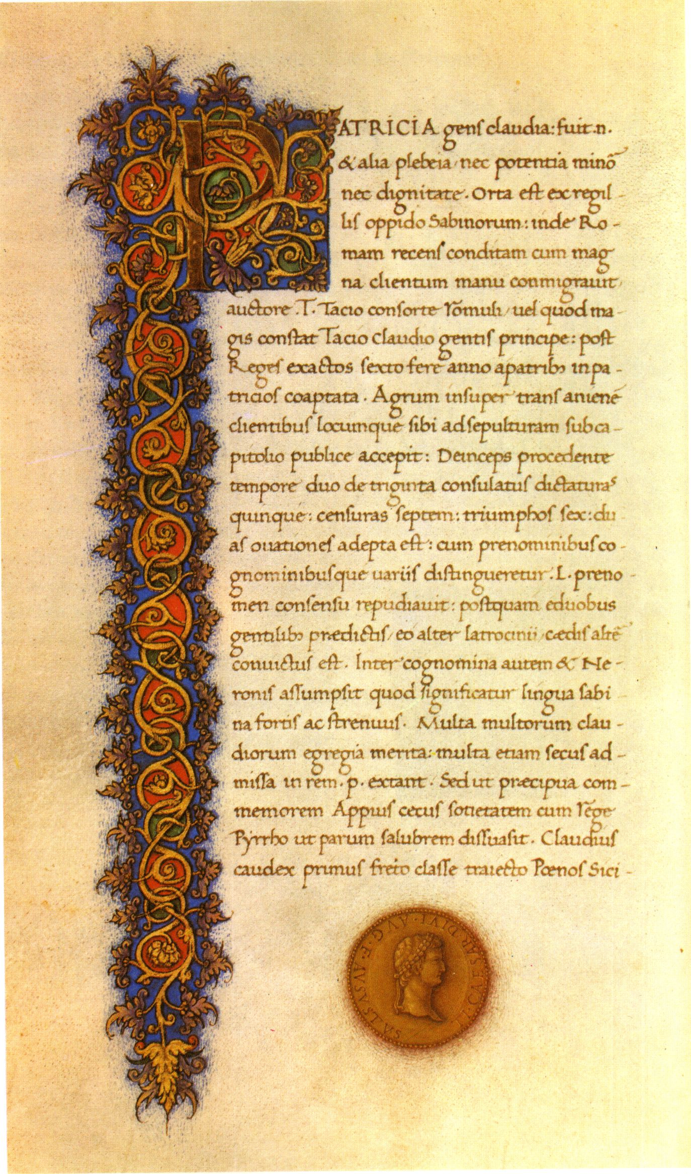 Suetonius, De vita Caesarum, the Berlin State Library (Ms. lat. fol. 28, fol. 73v.)